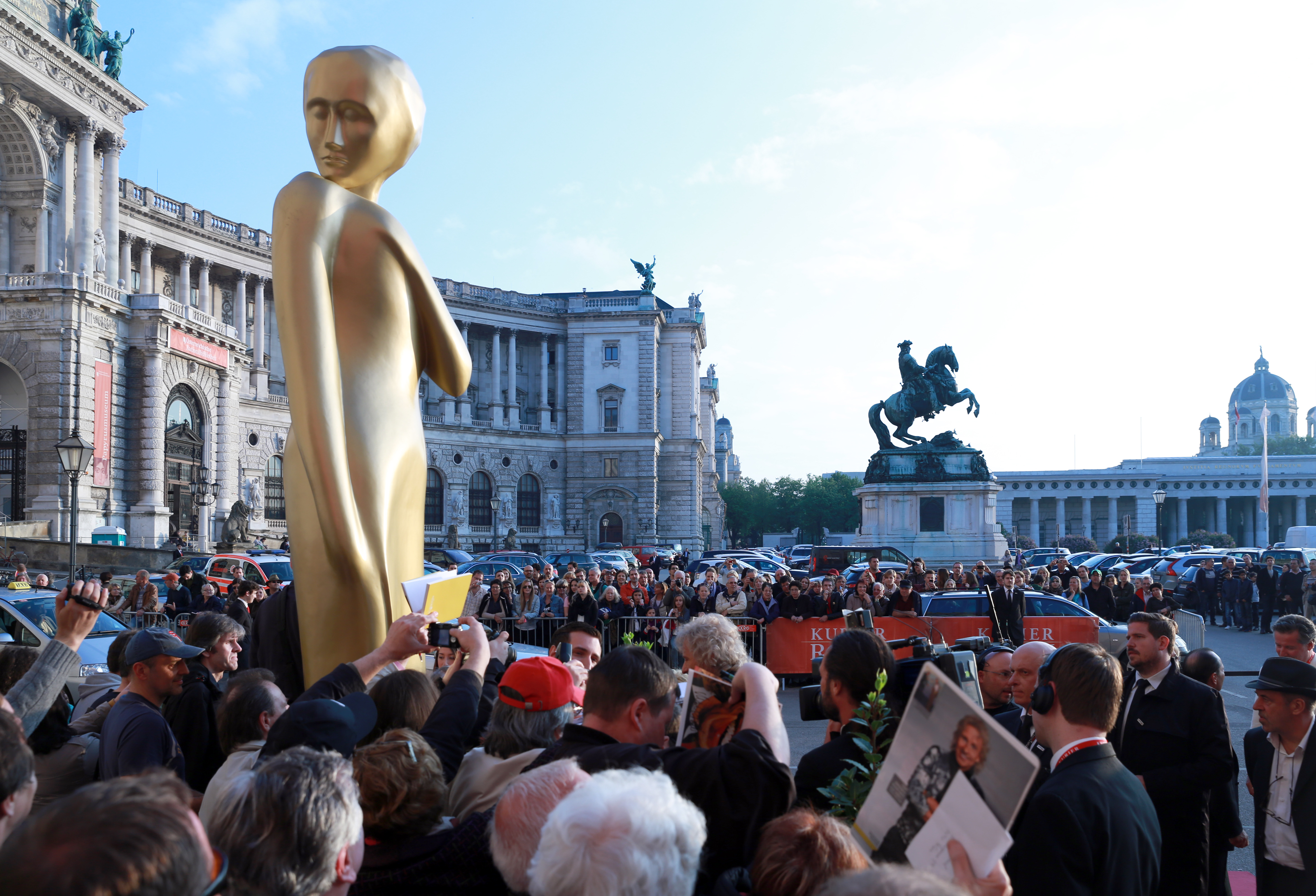 Thomas Gottschalk at the Romy film awards 2014 (Hofburg Imperial Palace in Vienna)